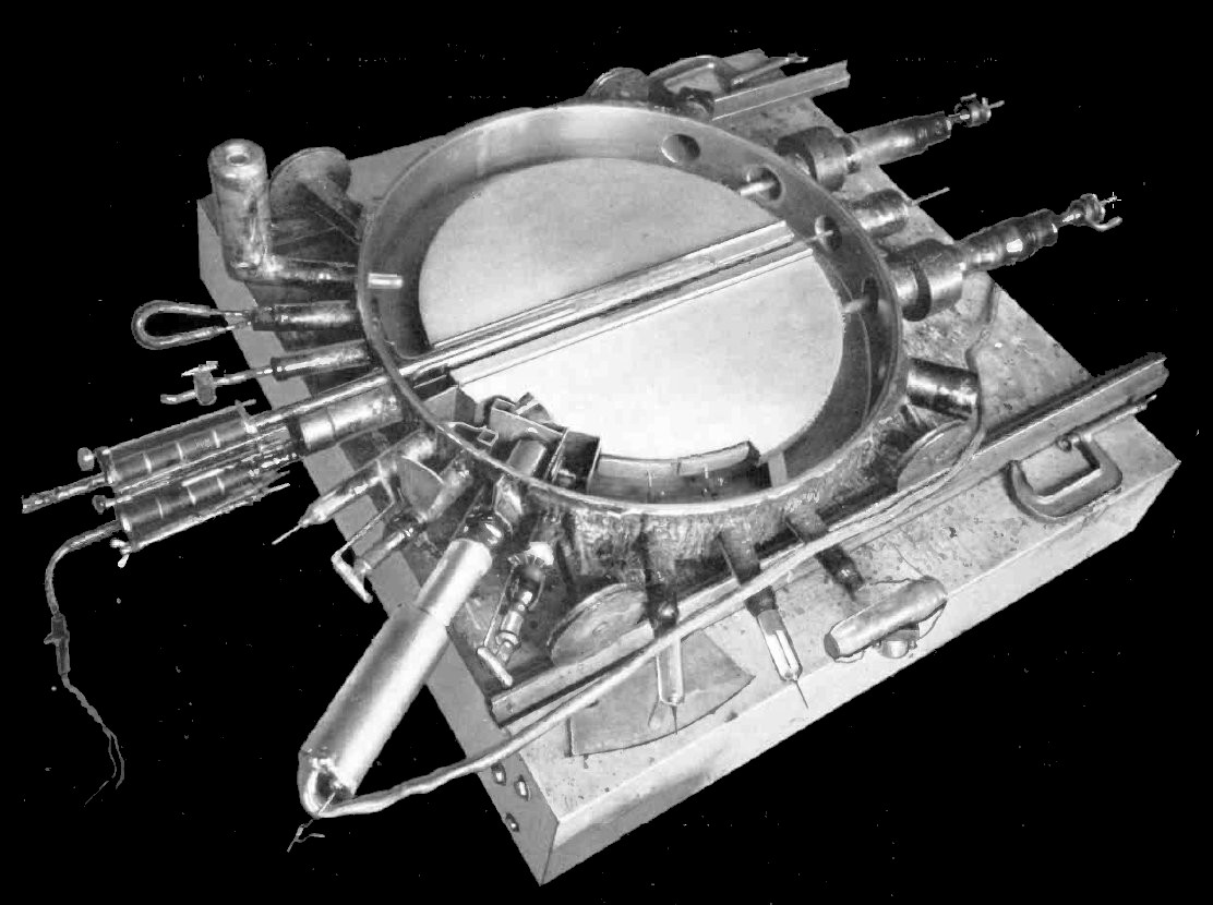 The vacuum chamber of a cyclotron particle accelerator from 1935 with its cover off, showing the two accelerating electrodes or "dees". This was the 27 inch cyclotron built by Ernest O. Lawrence at Univ. of California Berkeley Radiation Laboratory in 1932 that could accelerate deuterons to 4 Mev. In operation, this vacuum chamber was sandwiched between the 27 in. diameter pole pieces of a huge 75 ton electromagnet which produced a vertical magnetic field of 16,000 gauss with a current of 65 A in its windings. The two hollow sheet copper "D" shaped electrodes, or "dees" 22 in. diameter by 2 in. high, form a cylindrical space within which the particles, hydrogen or duterium ions, travel. The vertical magnetic field bends the particle's path into a circle. An oscillating radio frequency potential of 13,000 volts from an electronic oscillator at about 12 MHz is applied between the two dees through the two feedlines at right rear. Each time the particles cross the gap the electric field accelerates them. The particles travel in a spiral path clockwise from the center of the dees to the rim, where they pass out of the dees through a gap and strike a target located at bottom right.